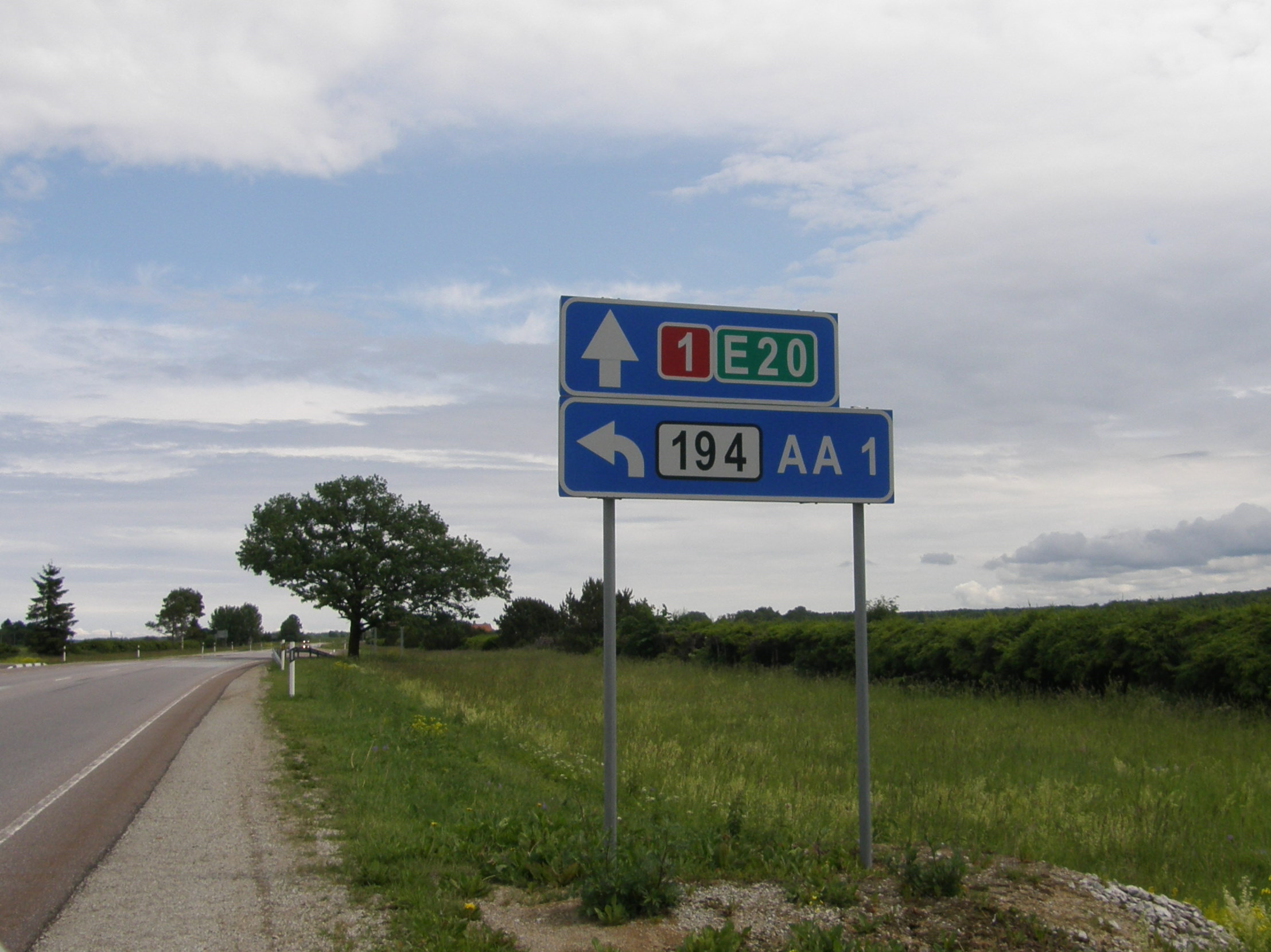 Aa 1 roadsign.